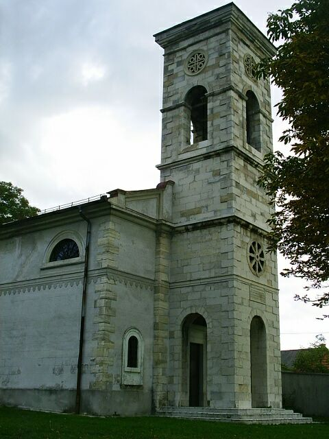 An old (damaged) orthodox church in Livno, BiH